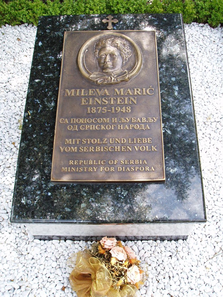 Grave of Mileva Maric-Einstein at Nordheim cemetery in Zurich.